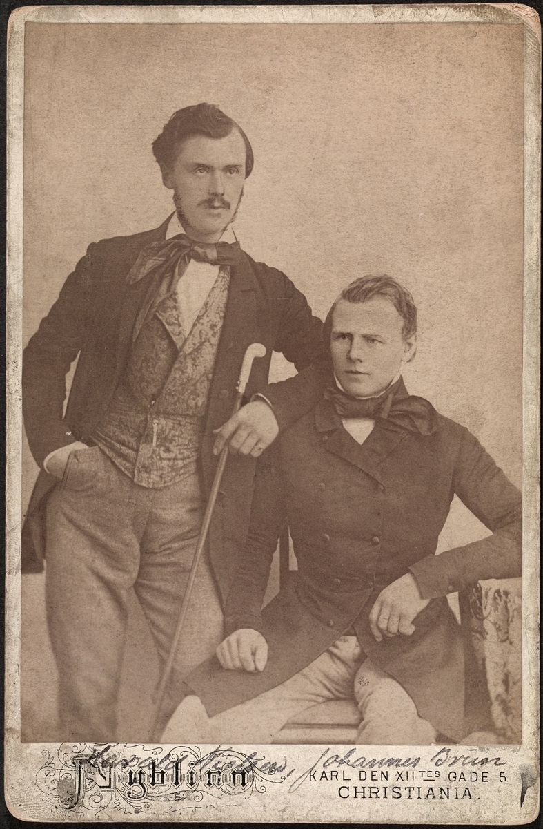 Actors at Det norske Theater in Bergen in the early 1850ies. Probably a later reproduction of the picture by Daniel Georg Nyblin. Harald Nielsen later became a photographer